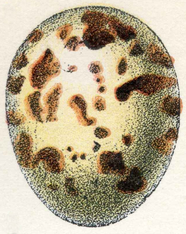 Egg of Eurasian sparrow-hawk